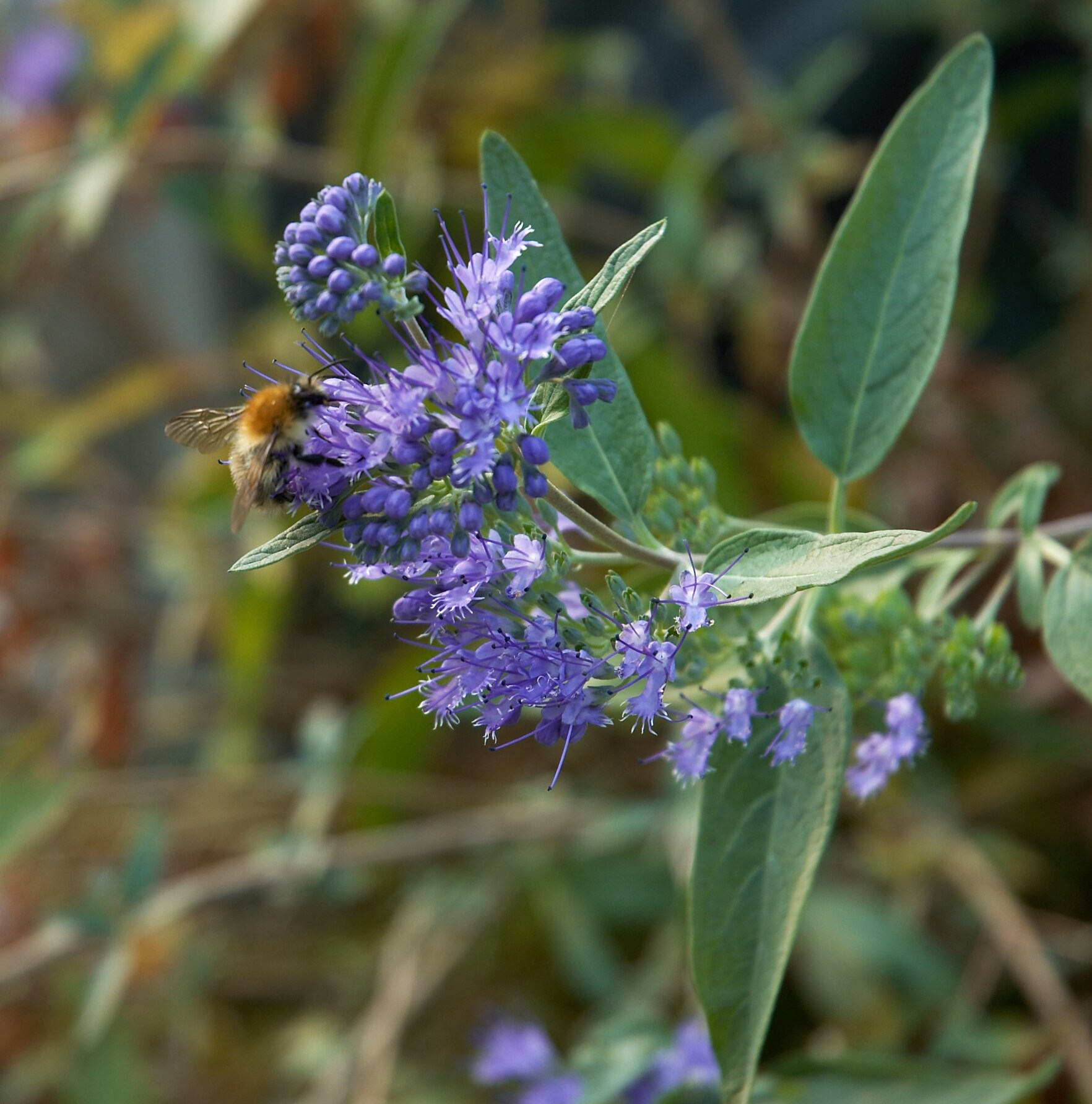 Bluebeard, Blue-spirea, Blue-mist Shrub